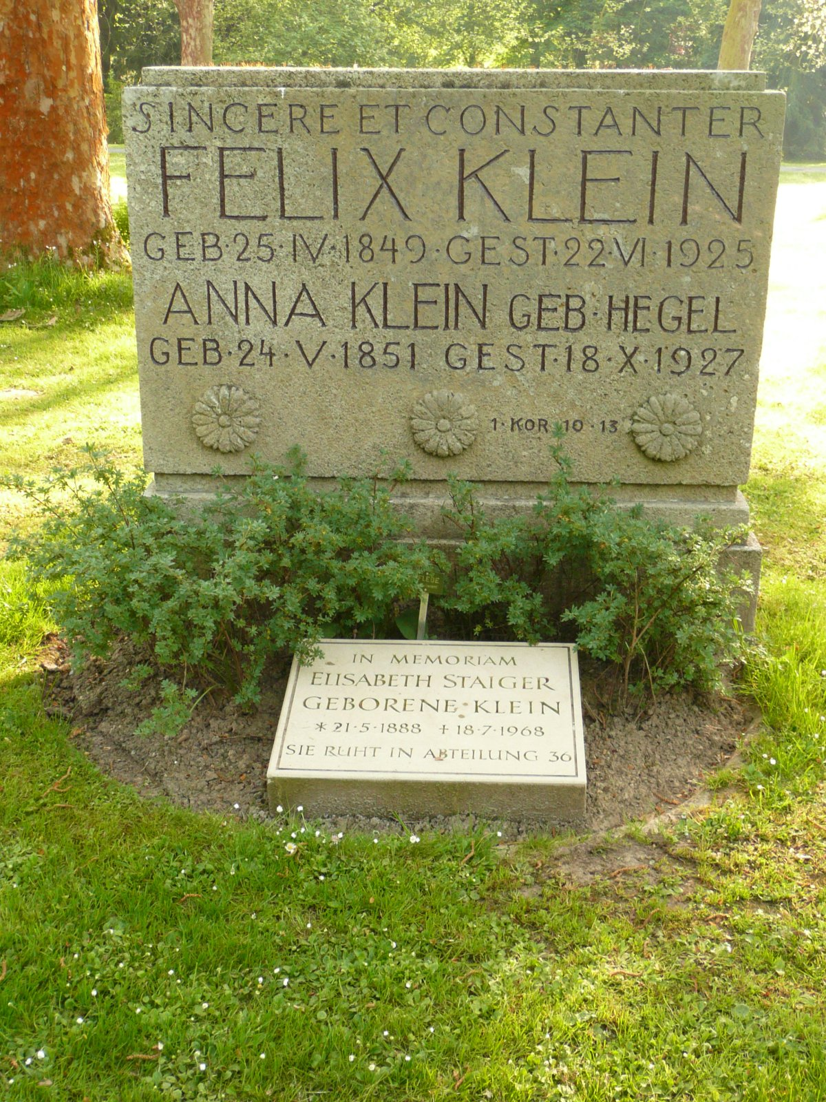 Tomb of Felix Klein in Goettingen